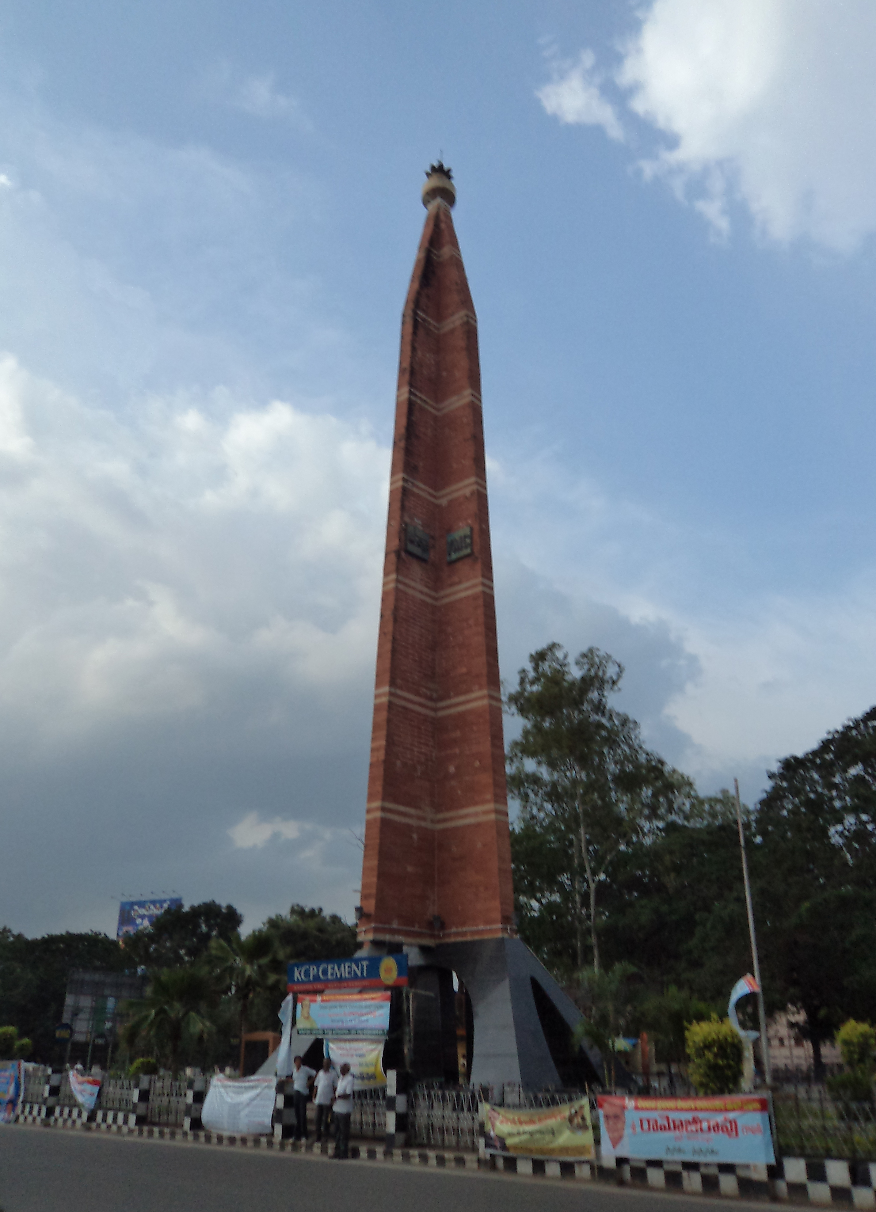 VMC - KCP cement Pylon opposite Tummalapalli Kshetrayya Kalakshetram Vijayawada